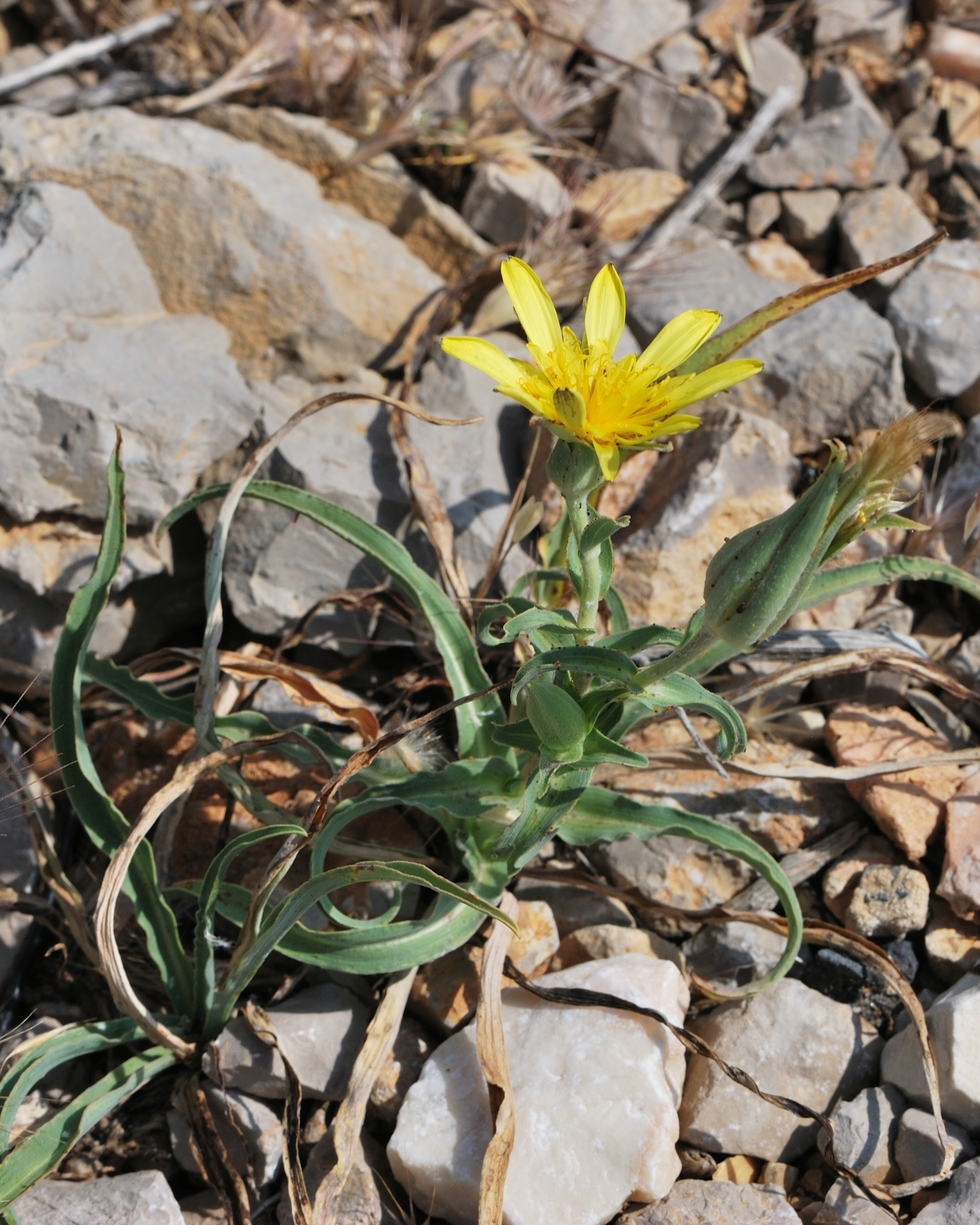 Tragopogon buphthalmoides (DC.) Boiss., Mount Hermon, Israel/Syria, July 9, 2011.